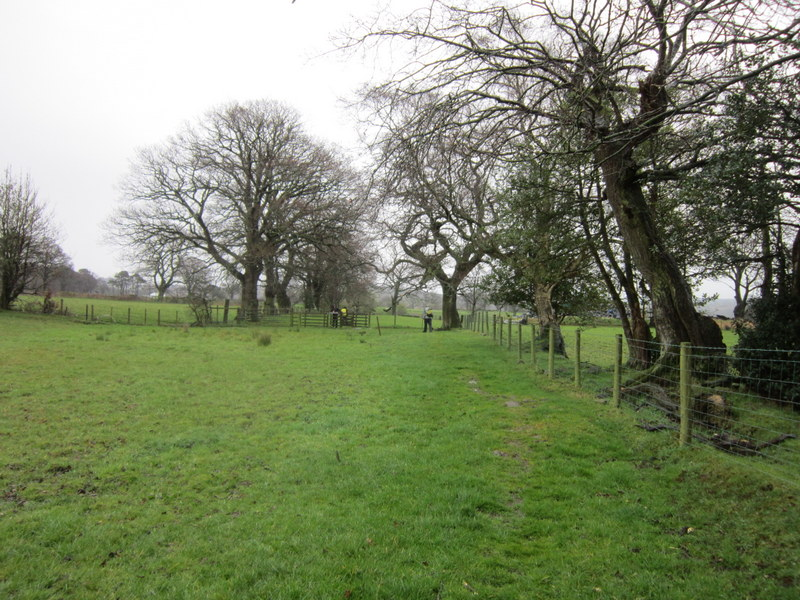 Walking towards Banks